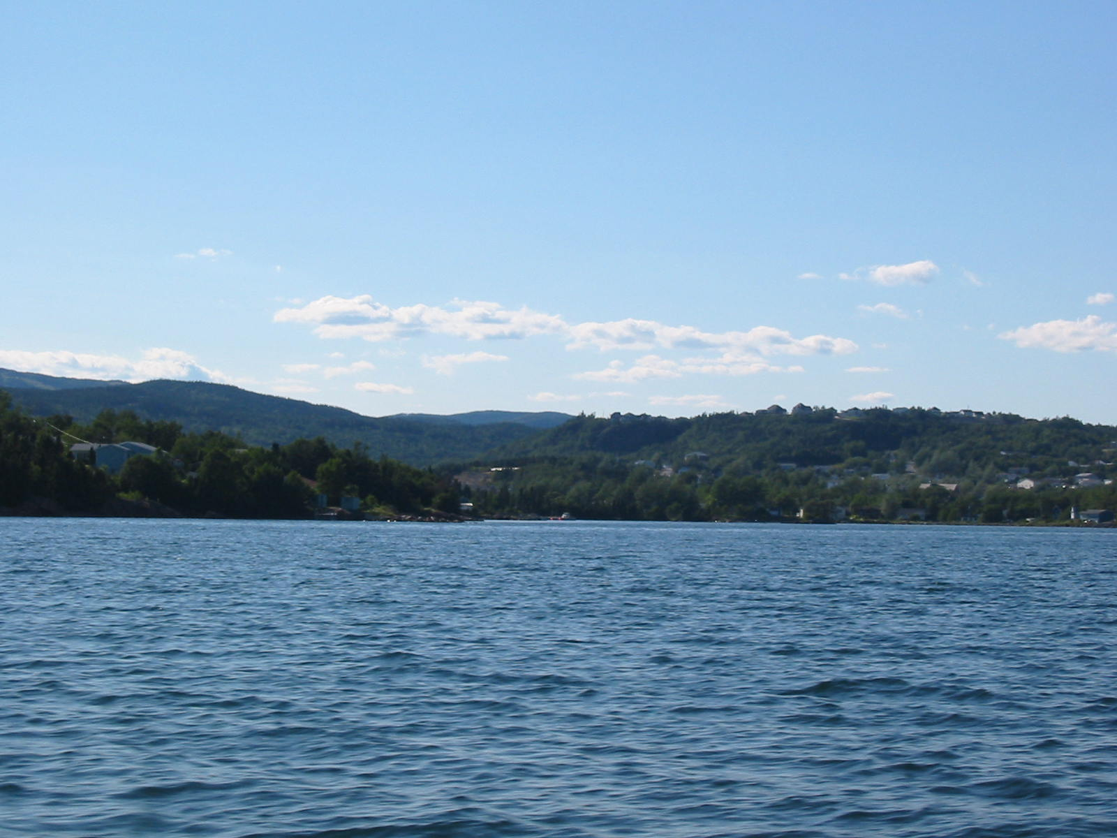 View of Clarenville, NFLD, Canada, from the sea.